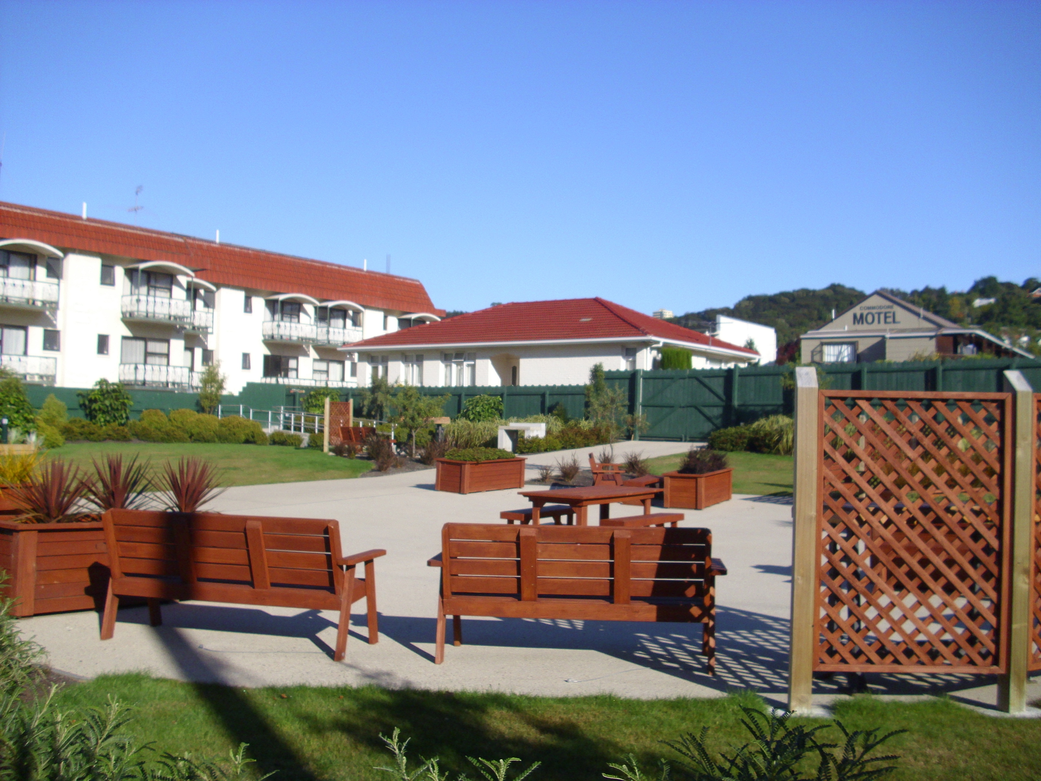 Image of Abbey College in the University of Otago, New Zealand